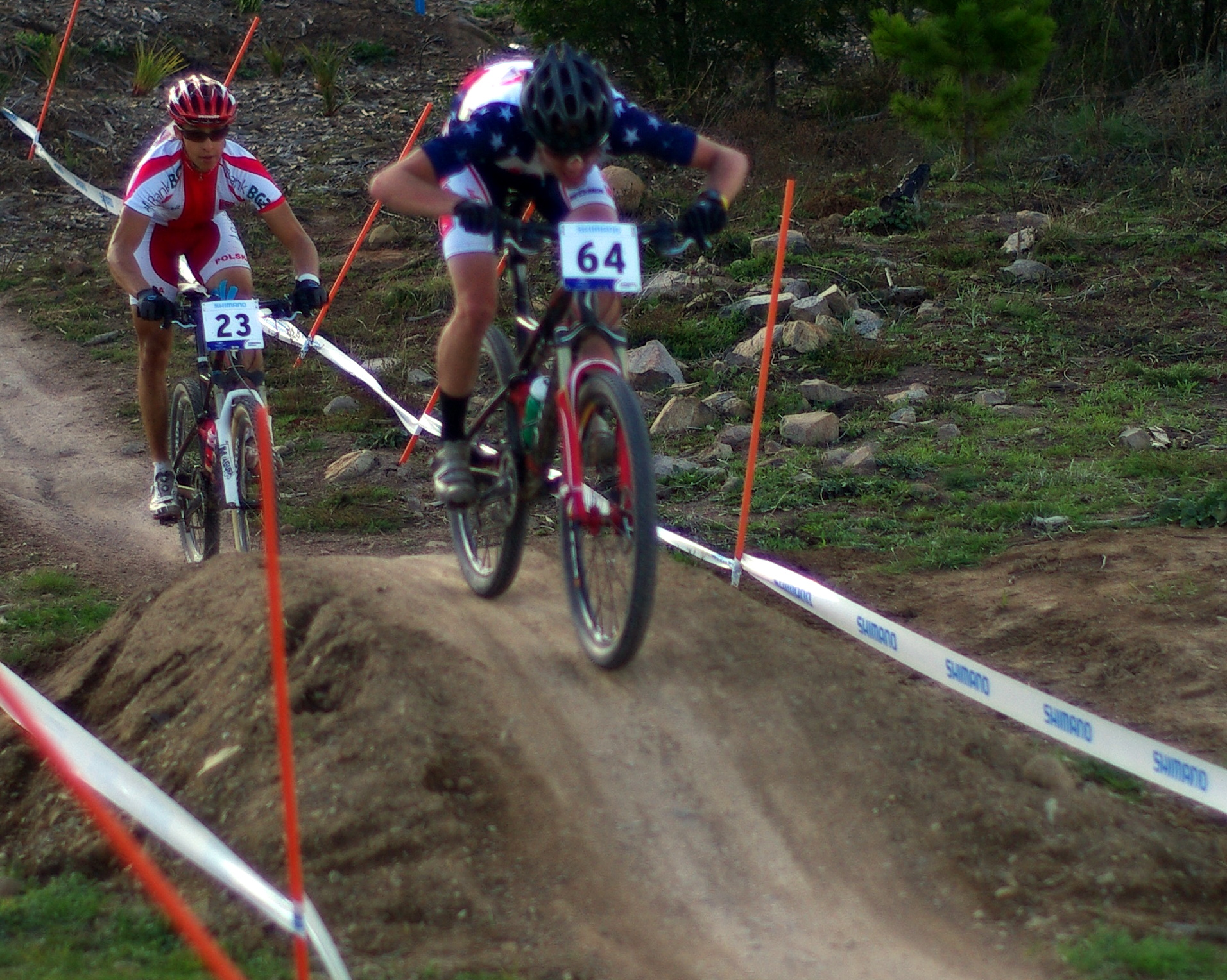 Cross-country mountain biking: Competitors in the under 23 men's division at the 2009 UCI Mountain Bike and Trials World Championships held at Mount Stromlo, near Canberra, Australia. Polish rider Piotr Brzozka pursues American Tad Elliott.